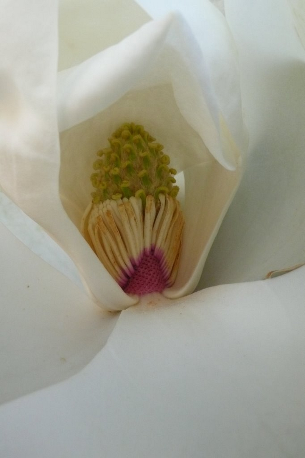 Magnolia, Jardin des serres d'Auteuil, Paris. The form and length of the stamens, the width of the gynoecium, the color of the androecium and the way the young tepals are folded all suggest Magnolia grandiflora